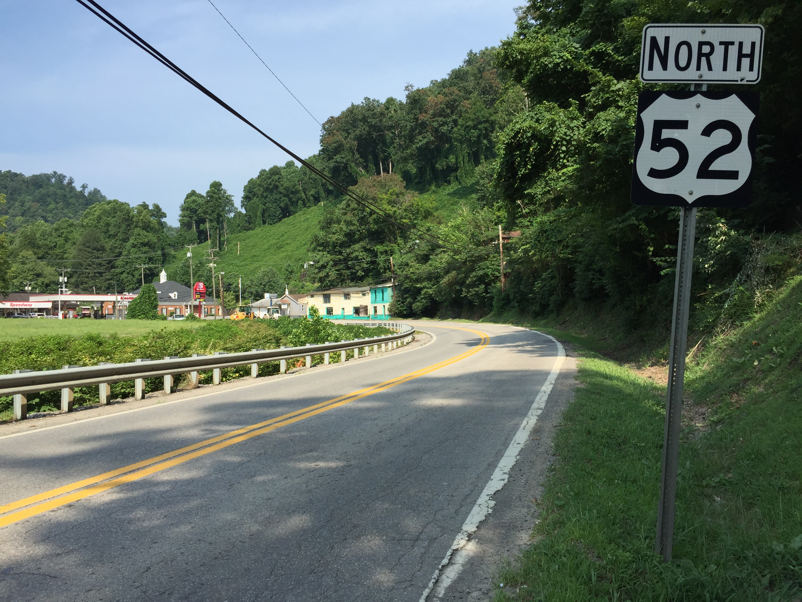 View north along U.S. Route 52 (Central Avenue) at Old County Road in Gilbert, Mingo County, West Virginia